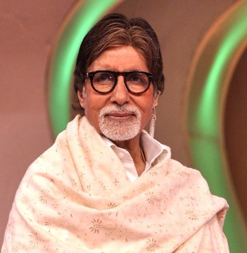 Amitabh Bachchan hosts the NDTV & Dettol Banega Swachh India Cleanathon